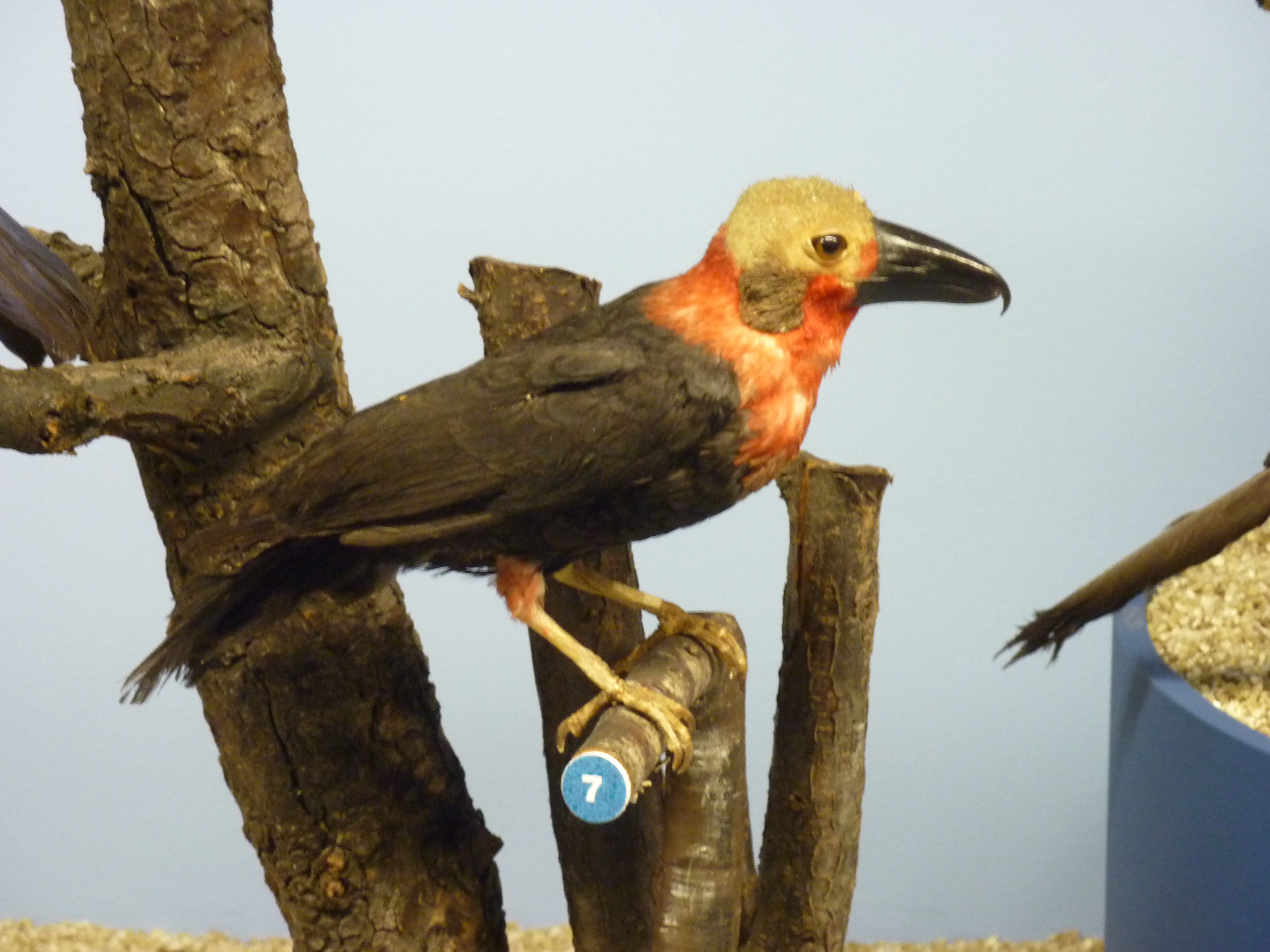 Mounted Bornean Bristlehead (Pityriasis gymnocephala), at the Muséum d'Histoire naturelle de Genève.